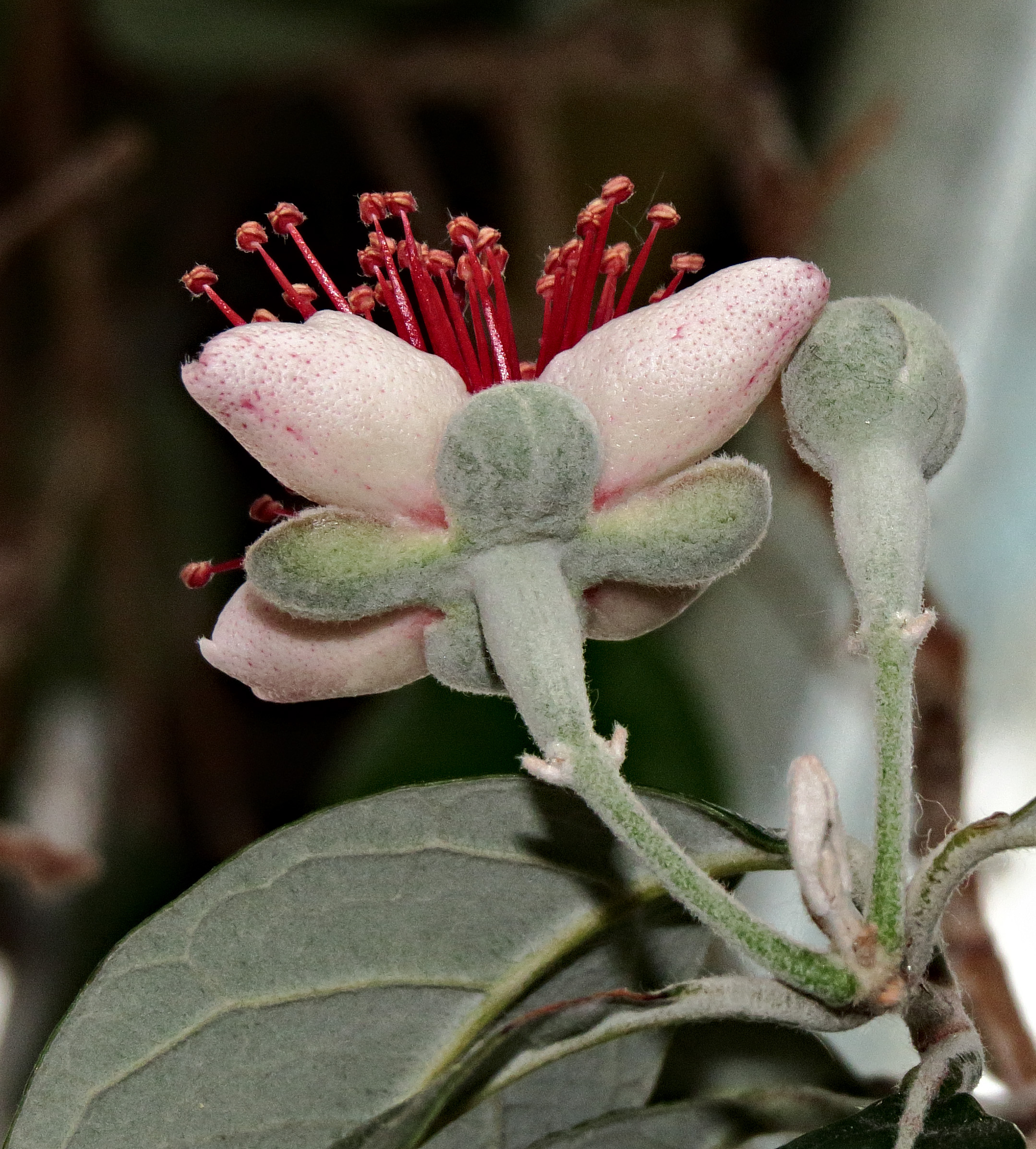 Acca sellowiana in Grishko botanical garden, Kiev, Ukraine